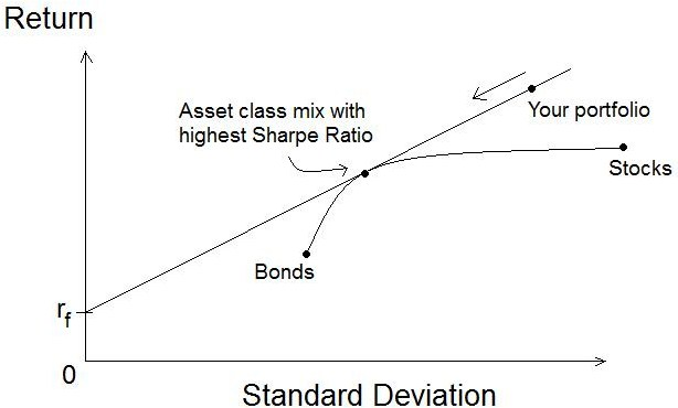 Sharpe ratio is developed by William F. Sharpe to measure risk-adjusted performance.